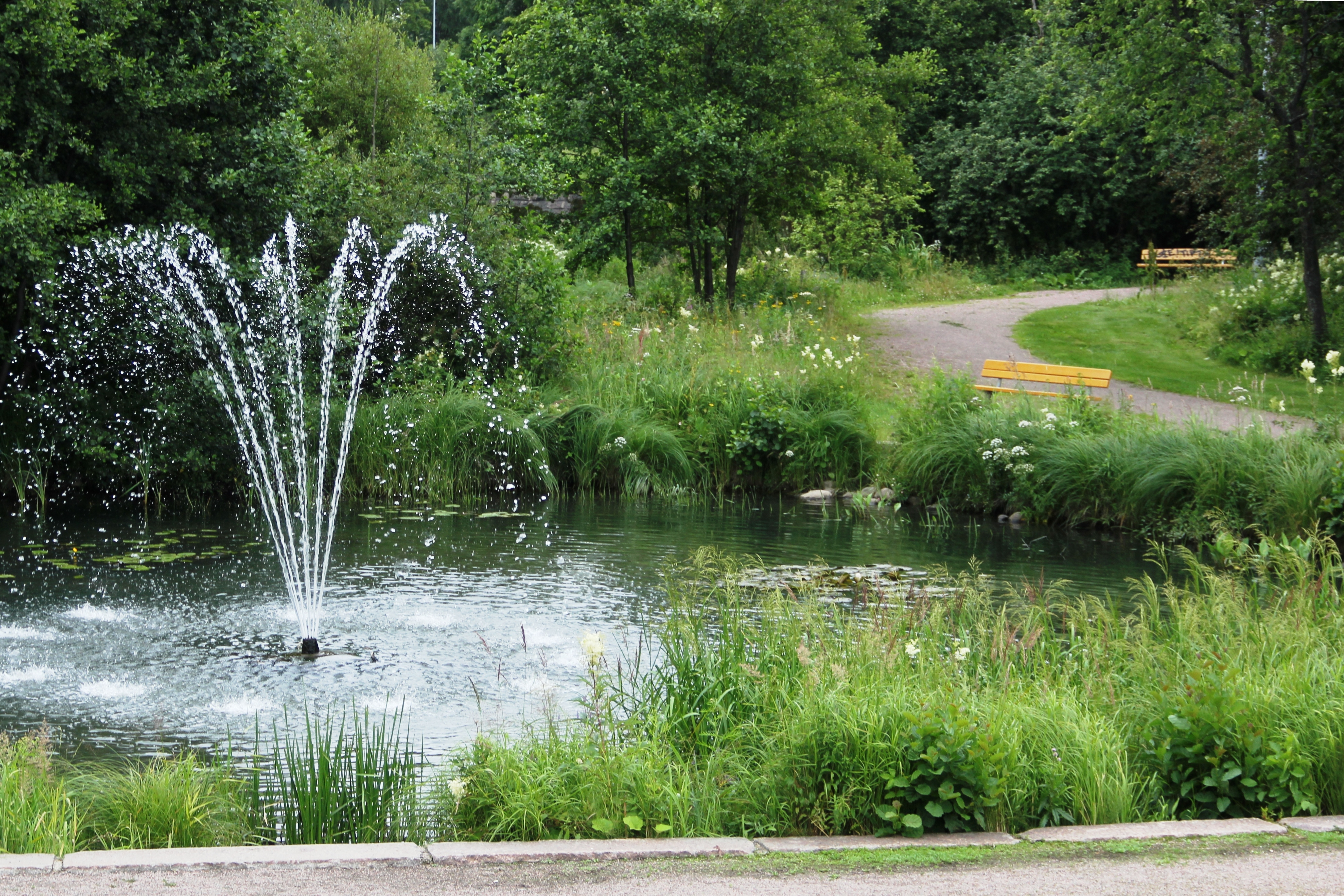 Park Väritehtaanranta, on Keravanjoki banks, Tikkurila, Vantaa, Finland